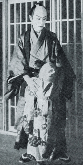 Jukai Ichikawa III as Yazawa Jūtarō in Taiheiki Chūshin Kōshaku, Act VII